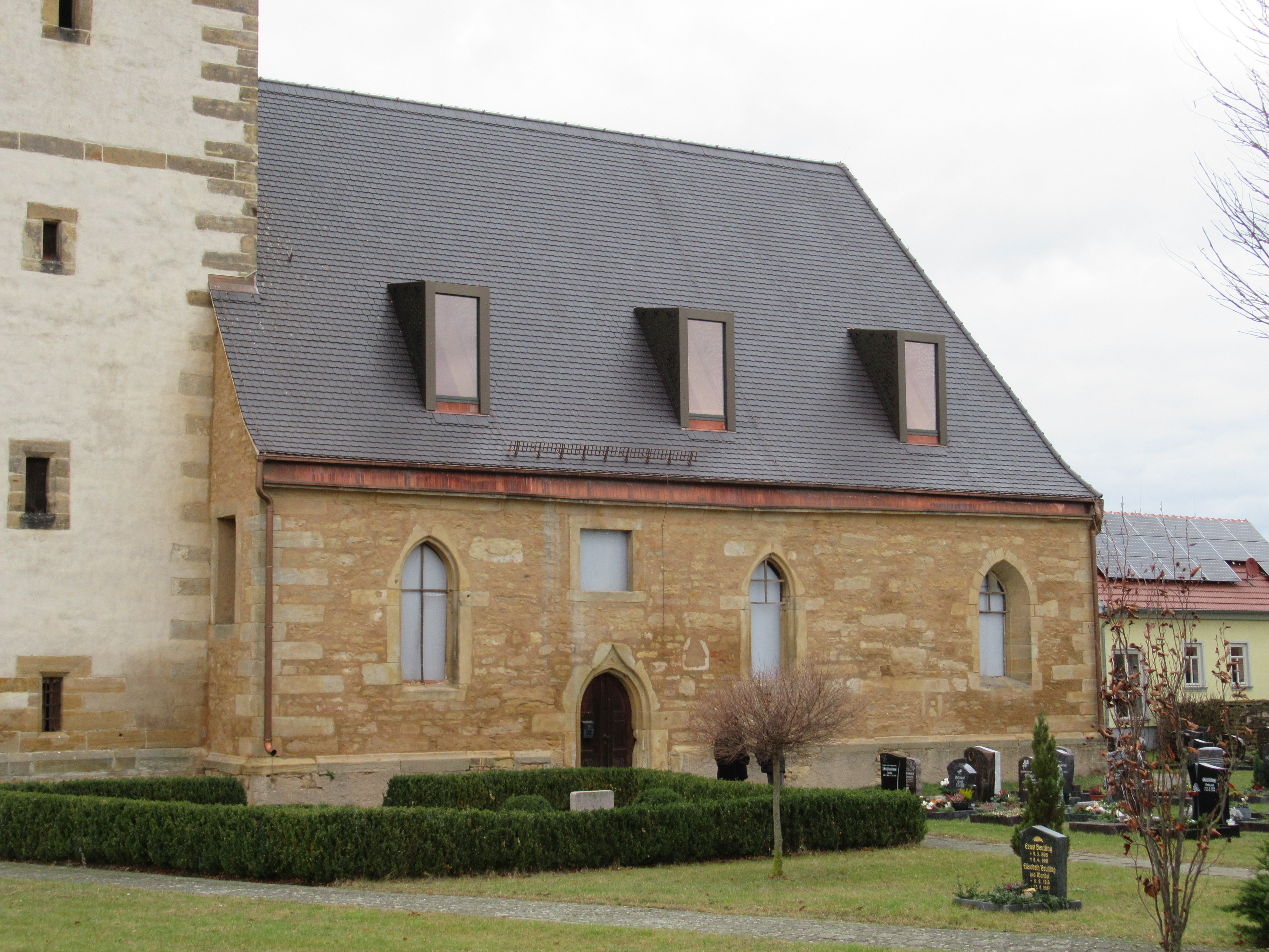 Nottleben Church in December 2019